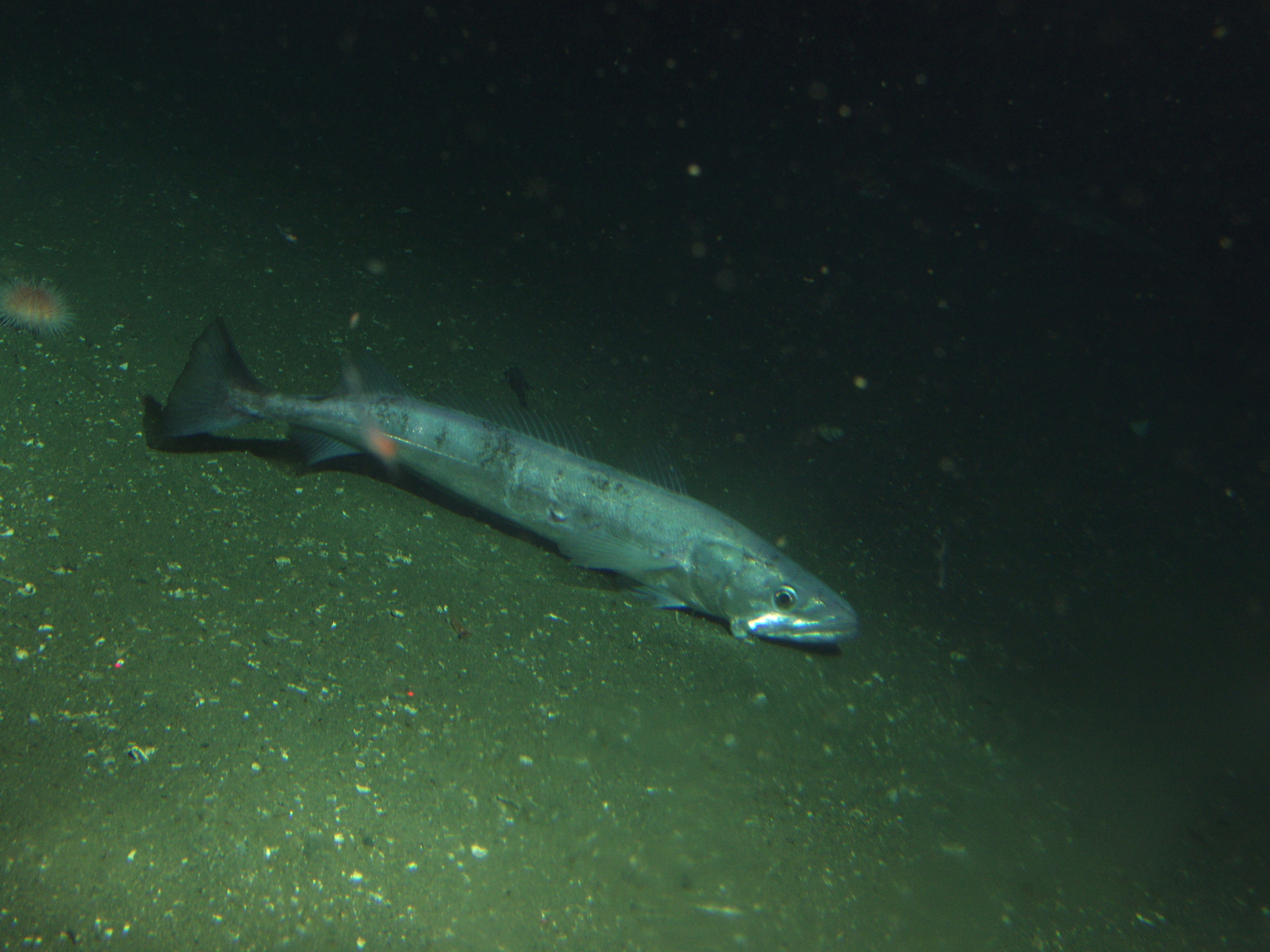 Pacific whiting (Merluccius productus) on soft bottom habitat at 302 meters. Latitude 38 03 N., Longitude 123 -31 W. California, Cordell Bank National Marine Sanctuary. 2005.